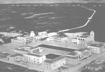 Libyan village of Battah (Oberdan).